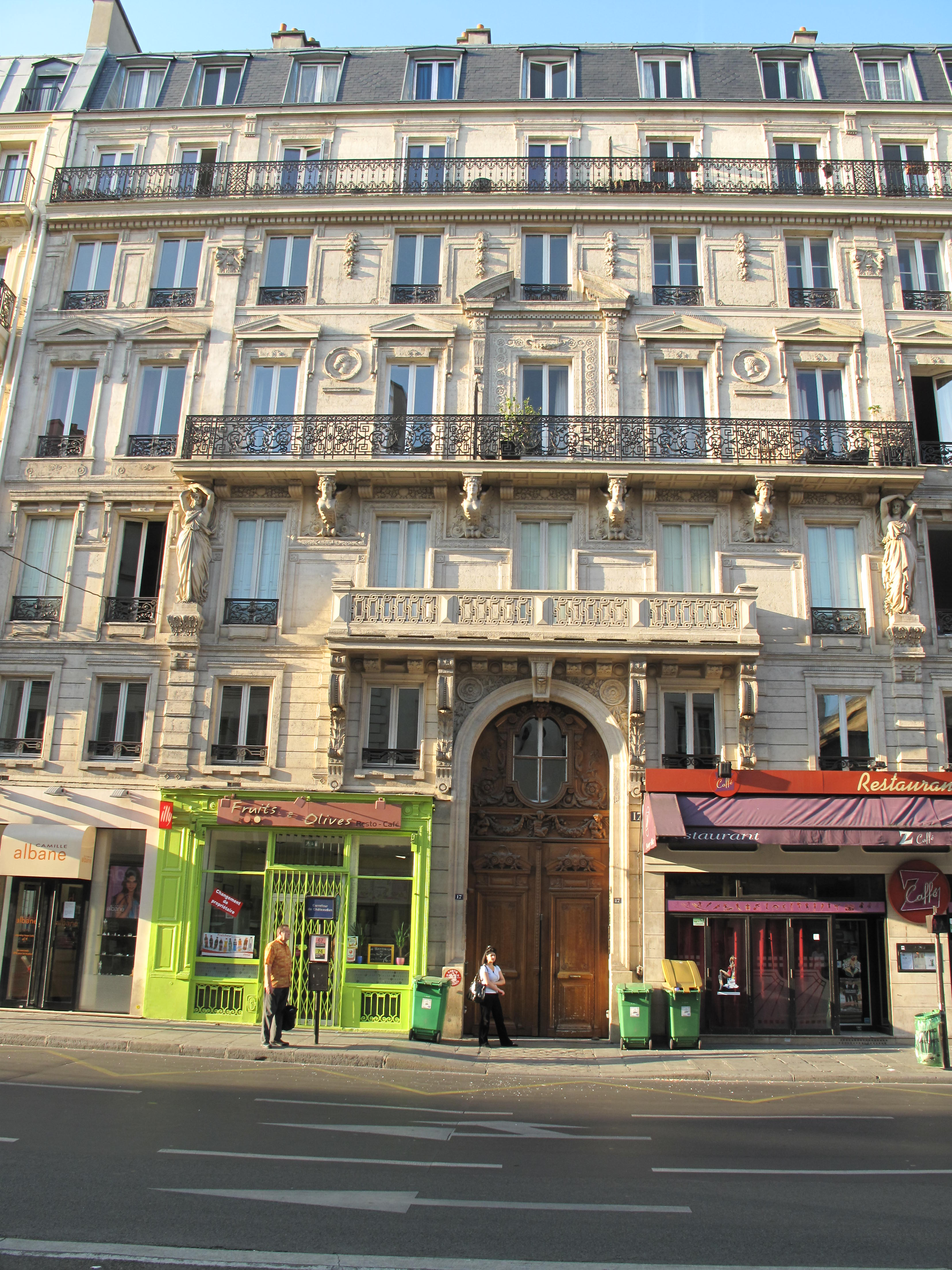 Facade 17 rue de Chateaudun, Paris 9th arr.